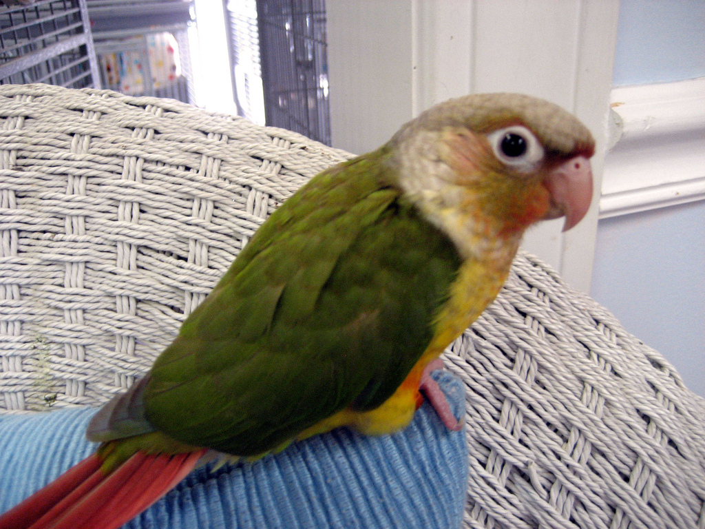 A pet Green-cheeked conure, the pineapple mutation, 50 days old.